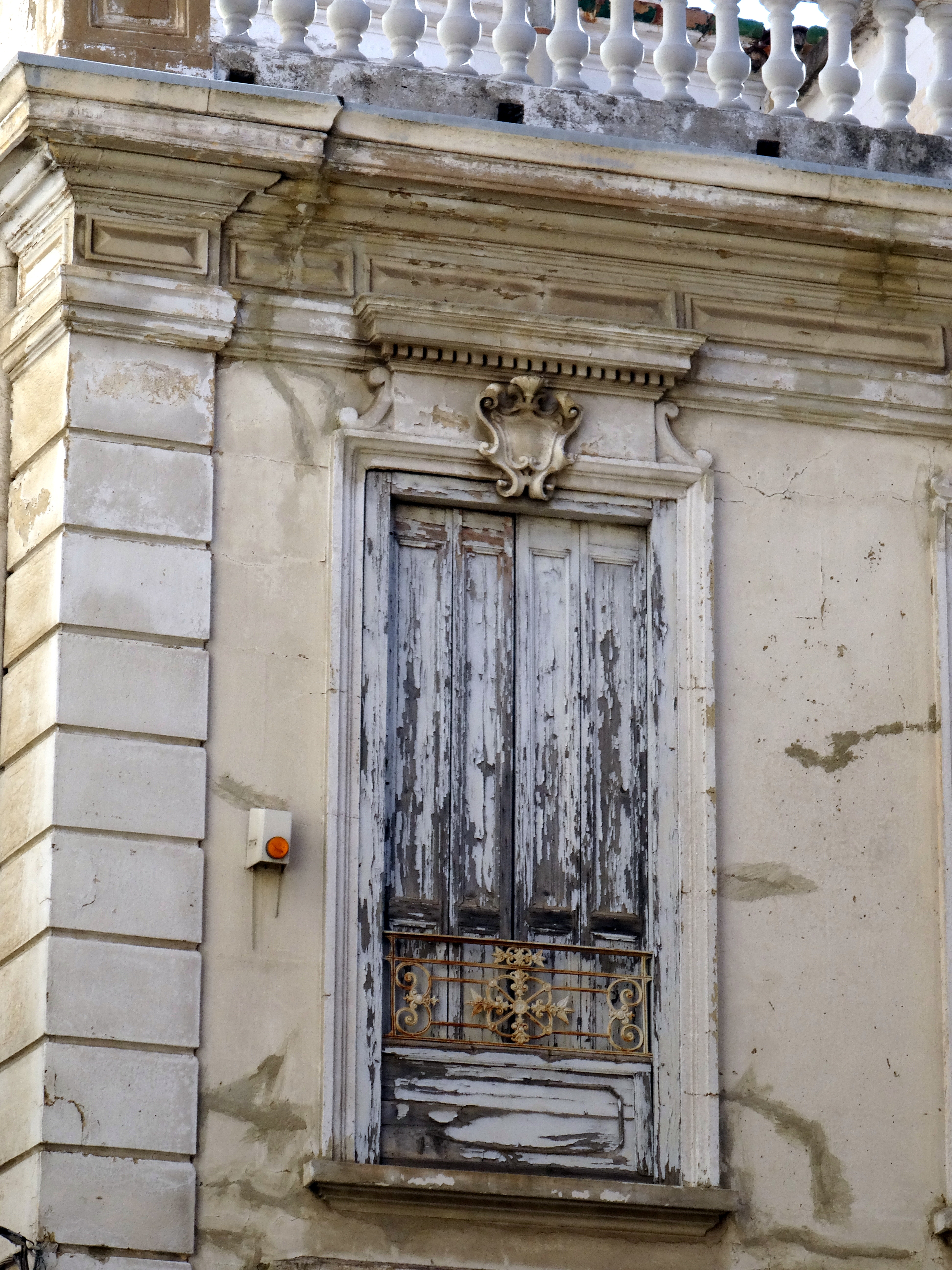 Balcony in Perpignan (France)